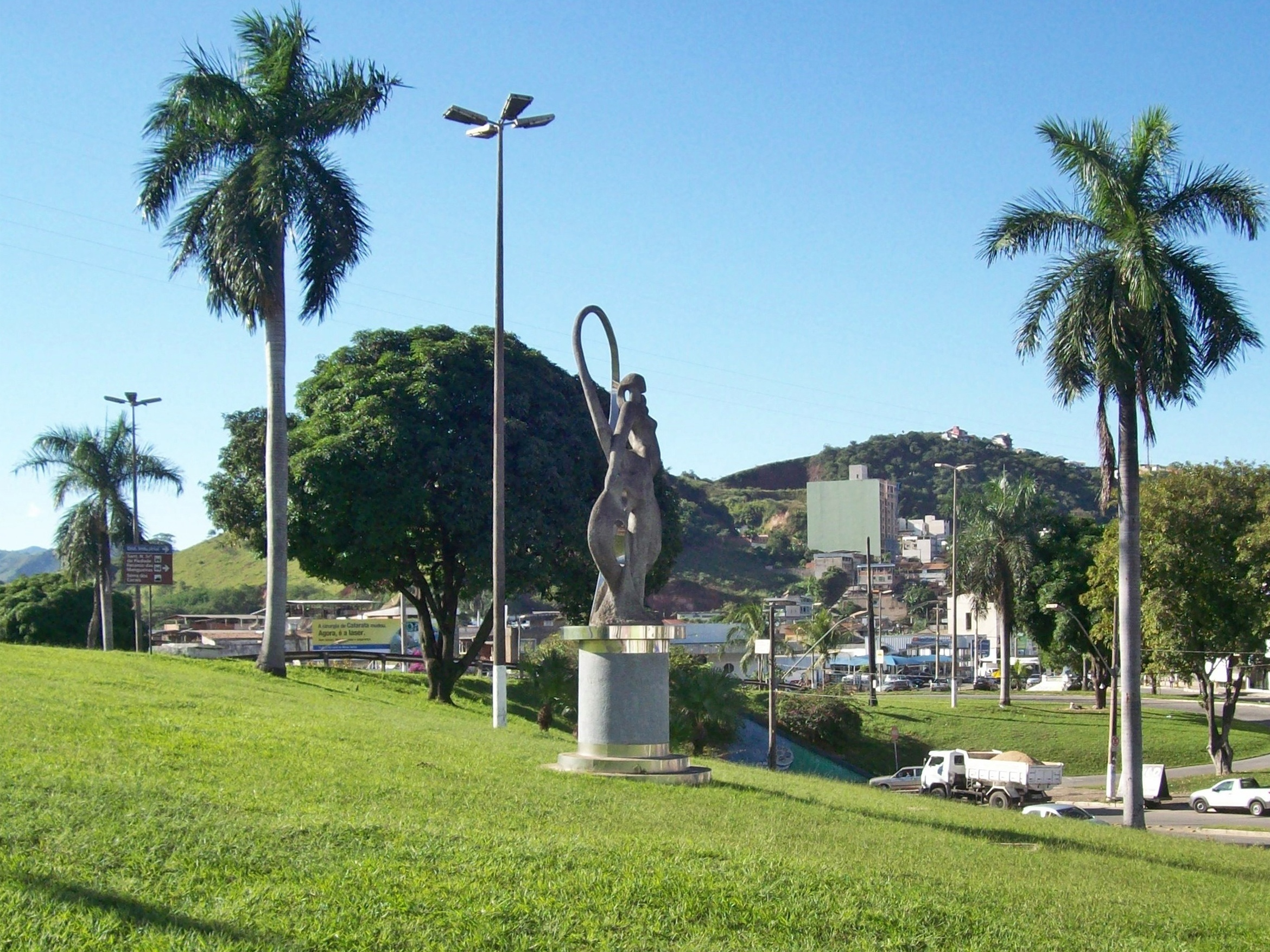 View of the "Terra Mãe" monument in the Pastor Pimentel interchange, in Coronel Fabriciano, Minas Gerais, Brazil.